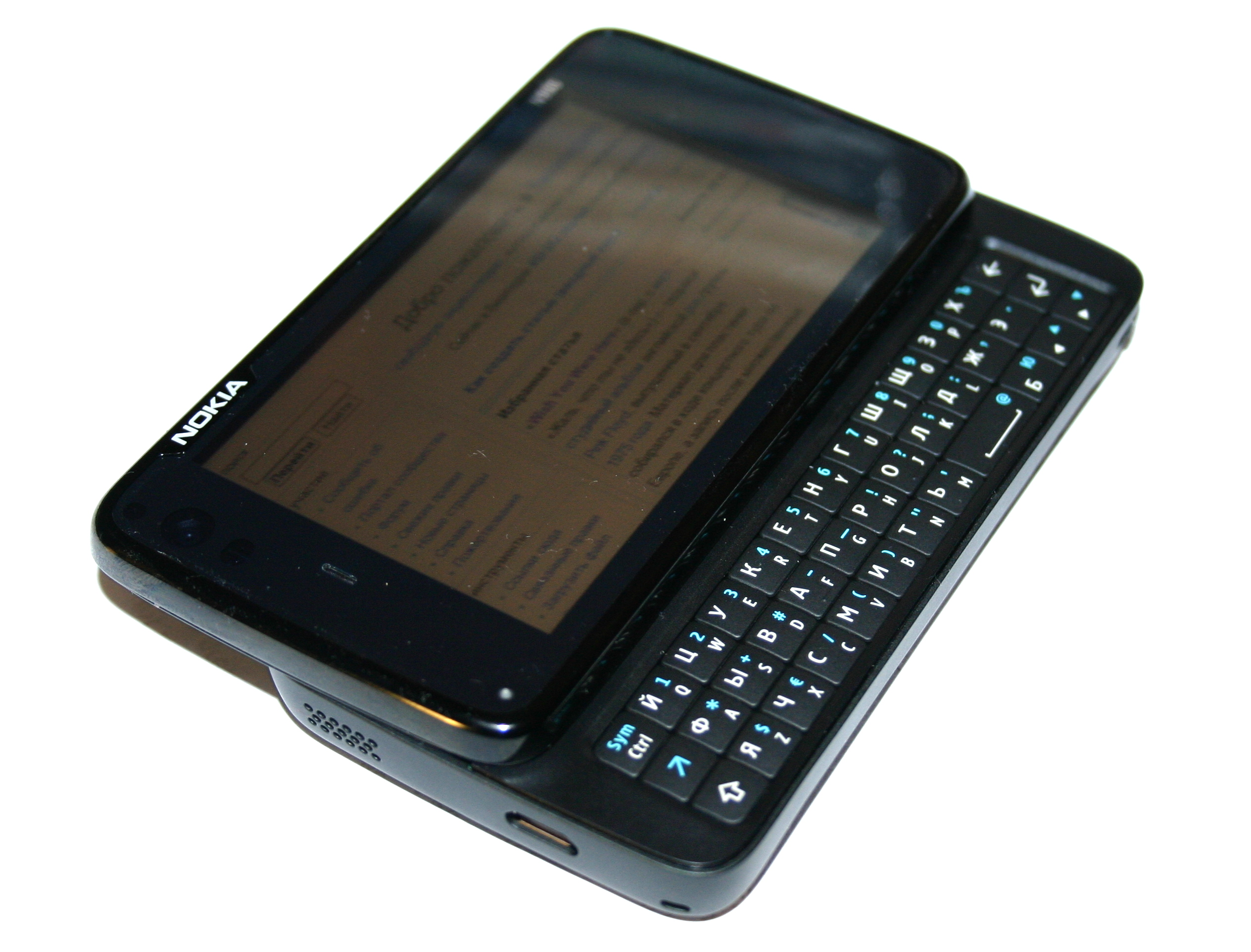 Nokia N900 communicator/internet tablet